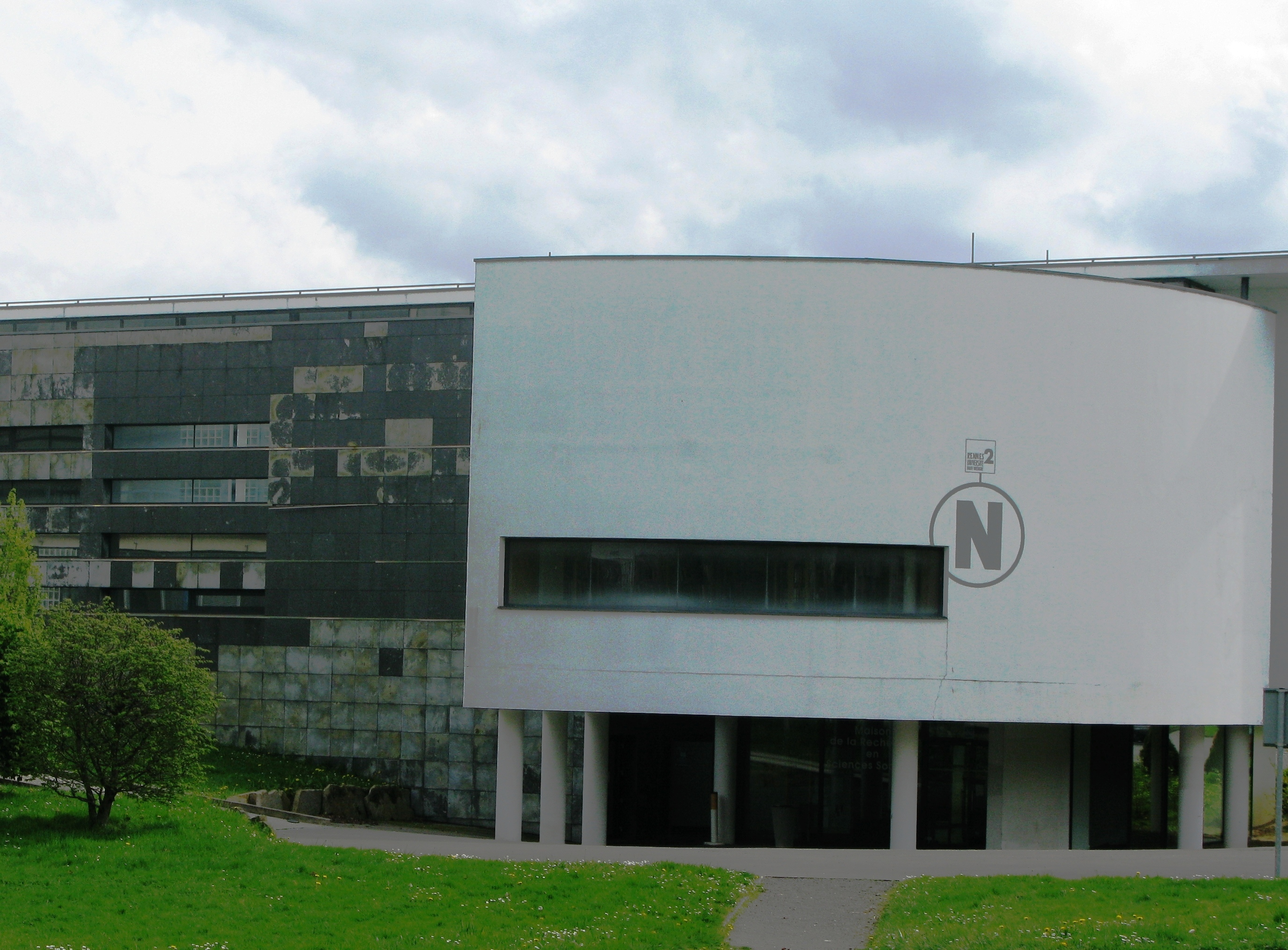 Building "N" of Rennes 2 University in Rennes, France. It houses research facilities related to History.